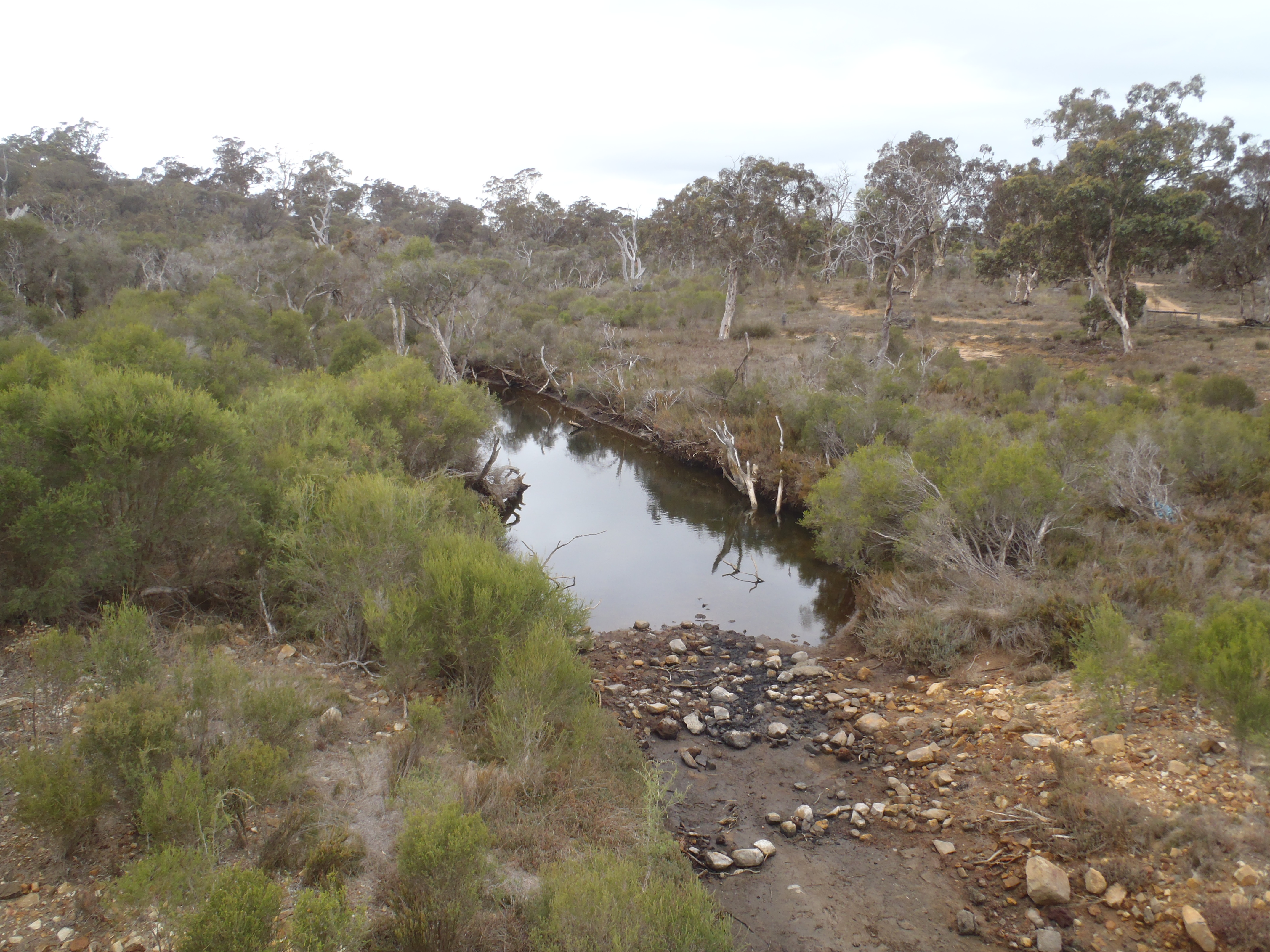 Kalgan River near Kamballup, btween Porongurups and Stirling Range